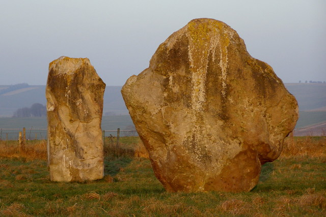 Paired stones in the Kennet Avenue Stone 13a on the left (east side of the avenue), a 'male' pillar. Stone 13b on the right (west side of the avenue), a 'female' lozenge. This is first set of paired stones standing in the Kennet Avenue as you go towards the Sanctuary from the southern entrance of Avebury henge. These stones were re-erected by Alexander Keiller.